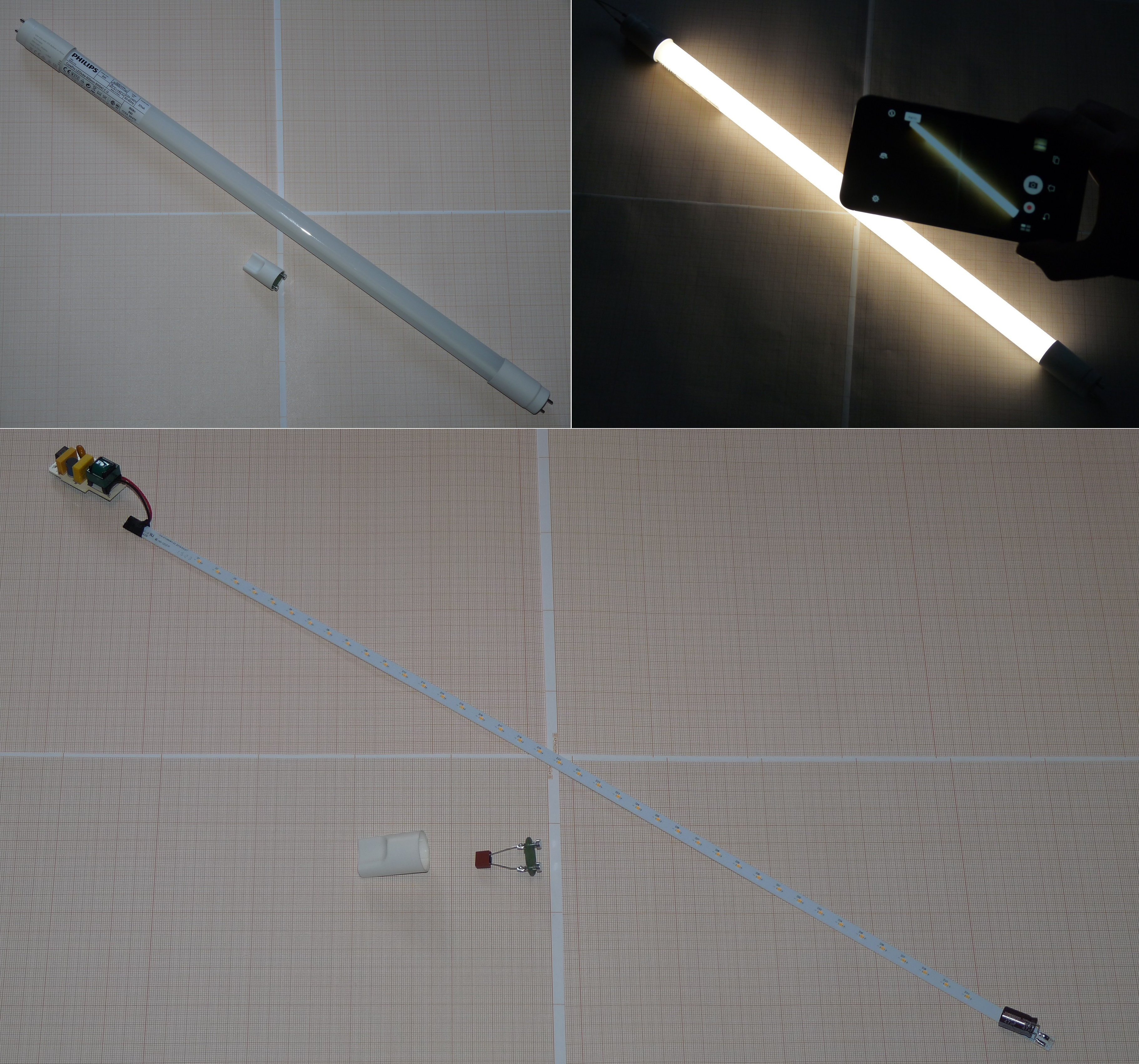 Linear LED light bulb with T8 socket